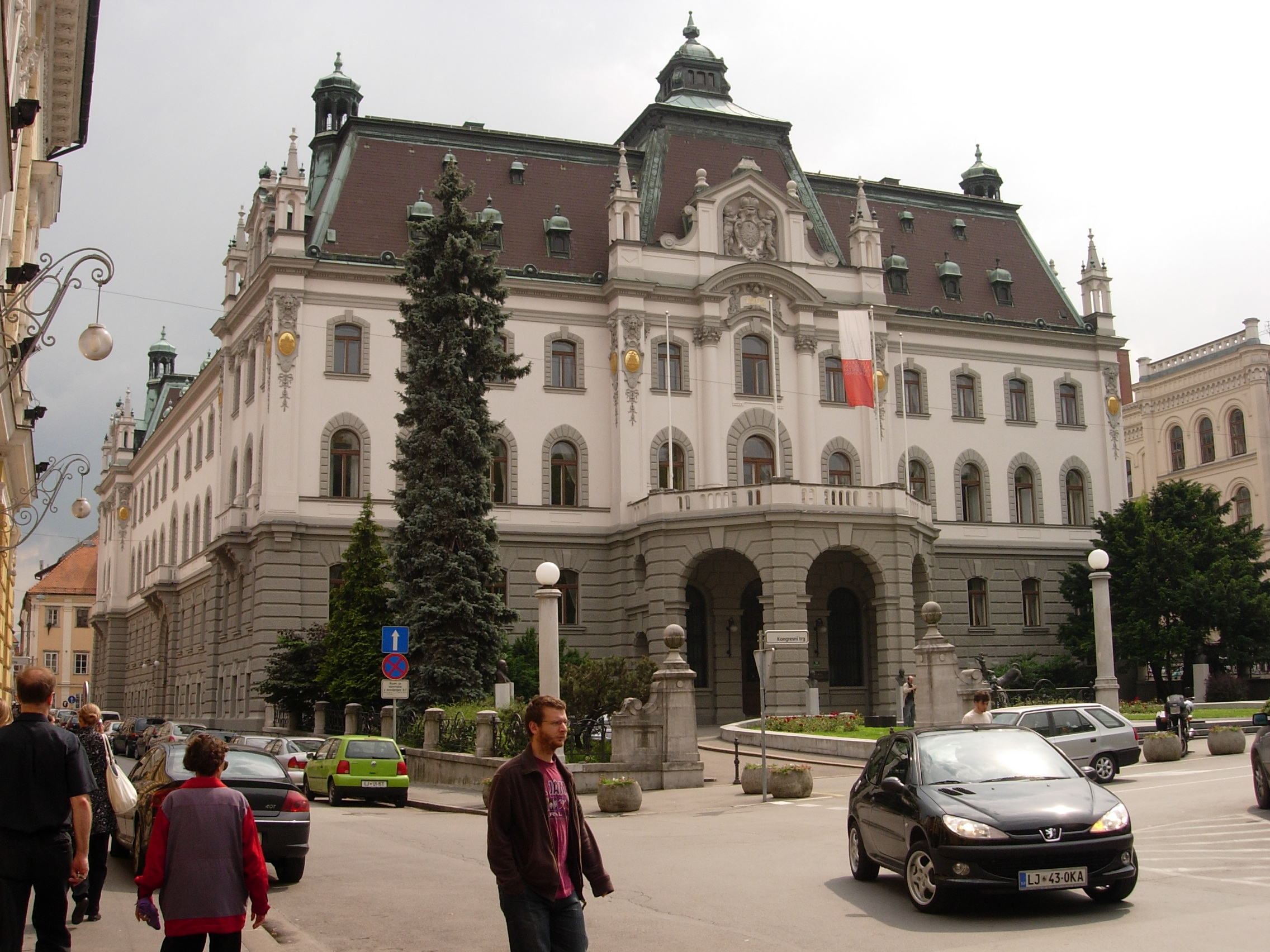 Carniolan Provincial Manor (1899-1902), now the seat of the University of Ljubljana. Congress Square, Ljubljana.